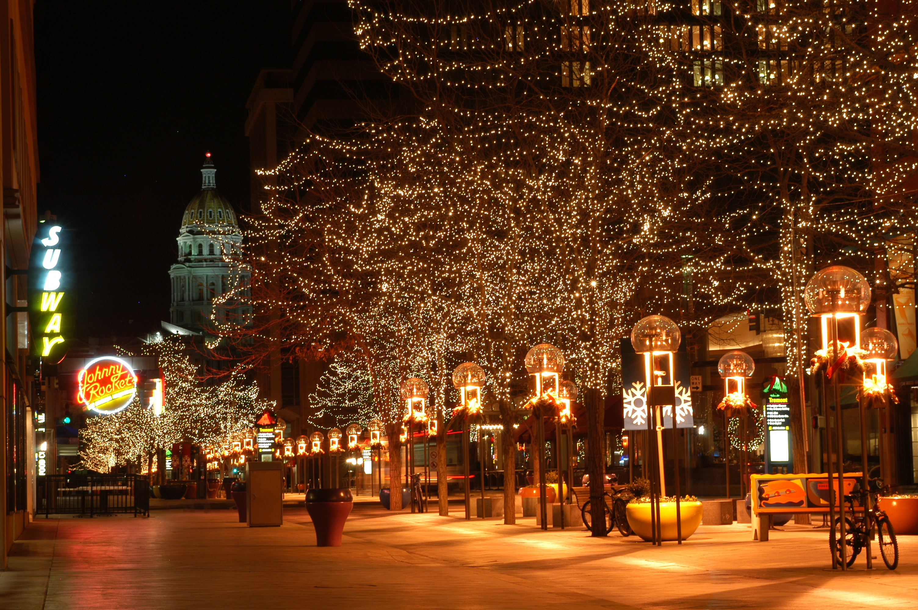 16th Street Mall in downtown Denver, Colorado, looking southeast towards the state capitol building.